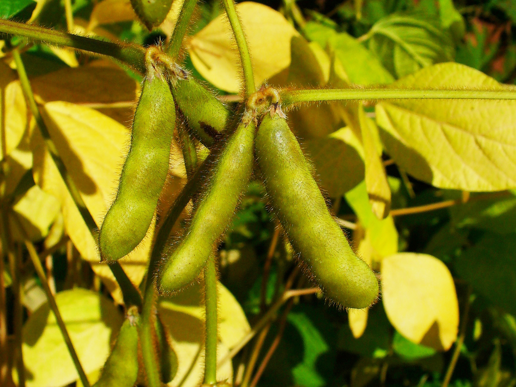 Glycine max, Fabeceae, Soybean, fruits; Botanical Garden KIT, Karlsruhe, Germany.